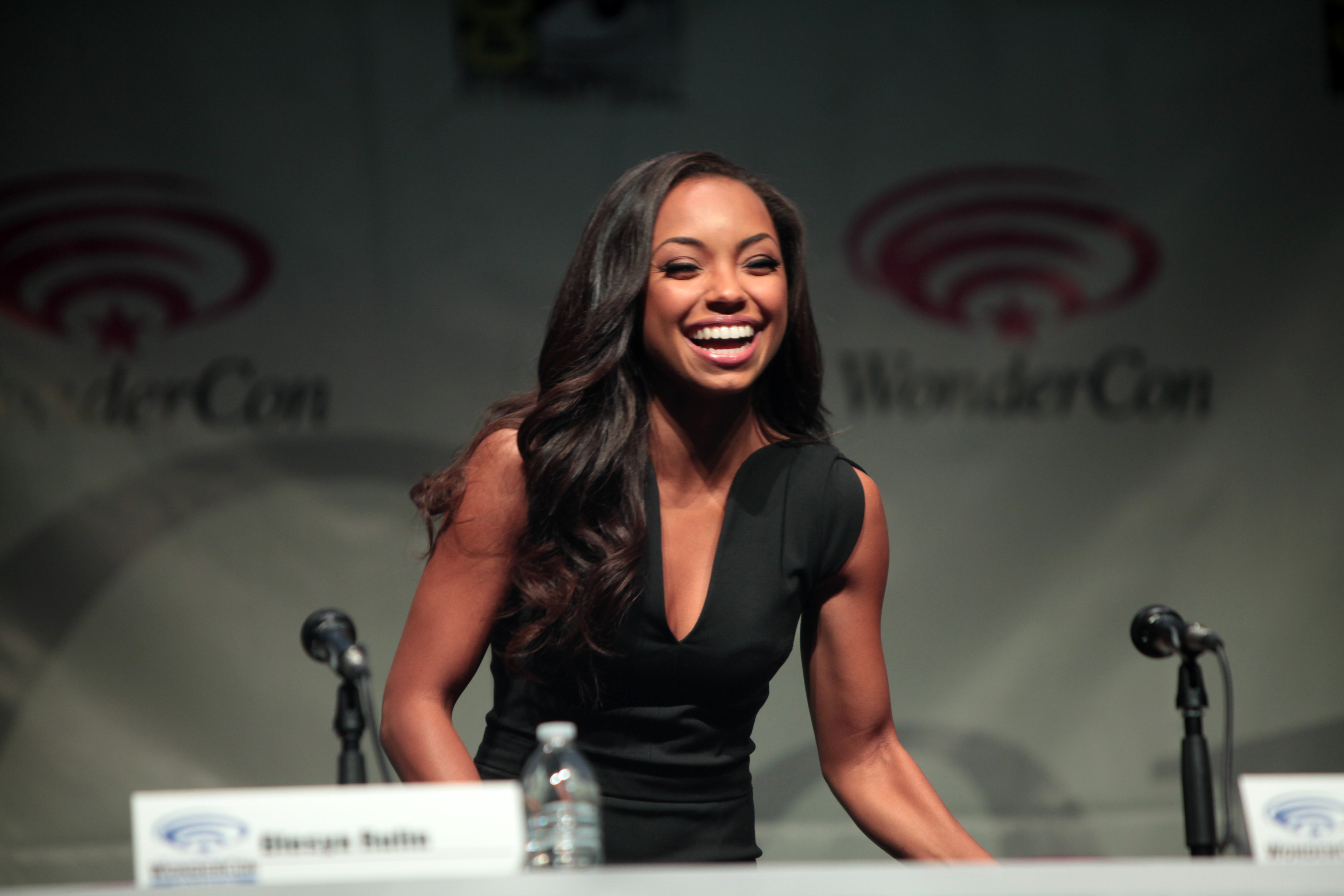 Logan Browning speaking at the 2015 Wondercon, for "Powers", at the Anaheim Convention Center in Anaheim, California.